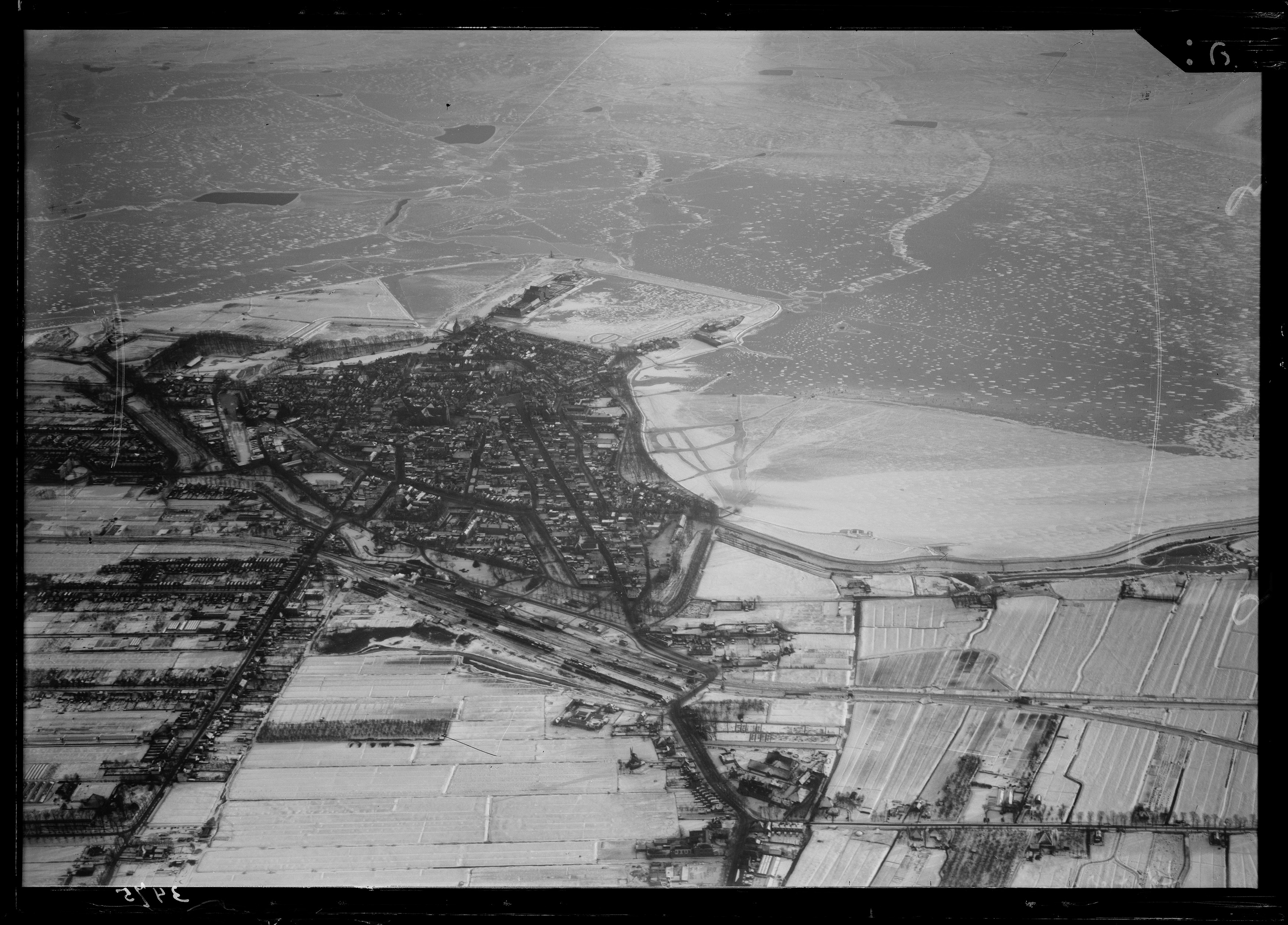 Aerial photograph of Hoorn, The Netherlands